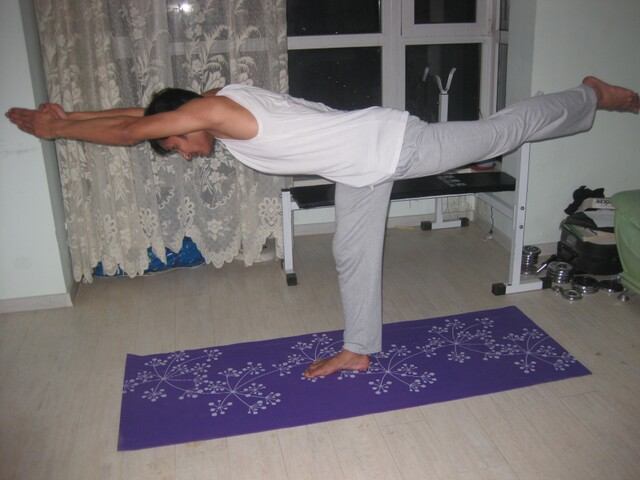 Tuladandasana - Balancing Stick Pose which is more commonly known as Virabhadrasana III (warrior pose III)